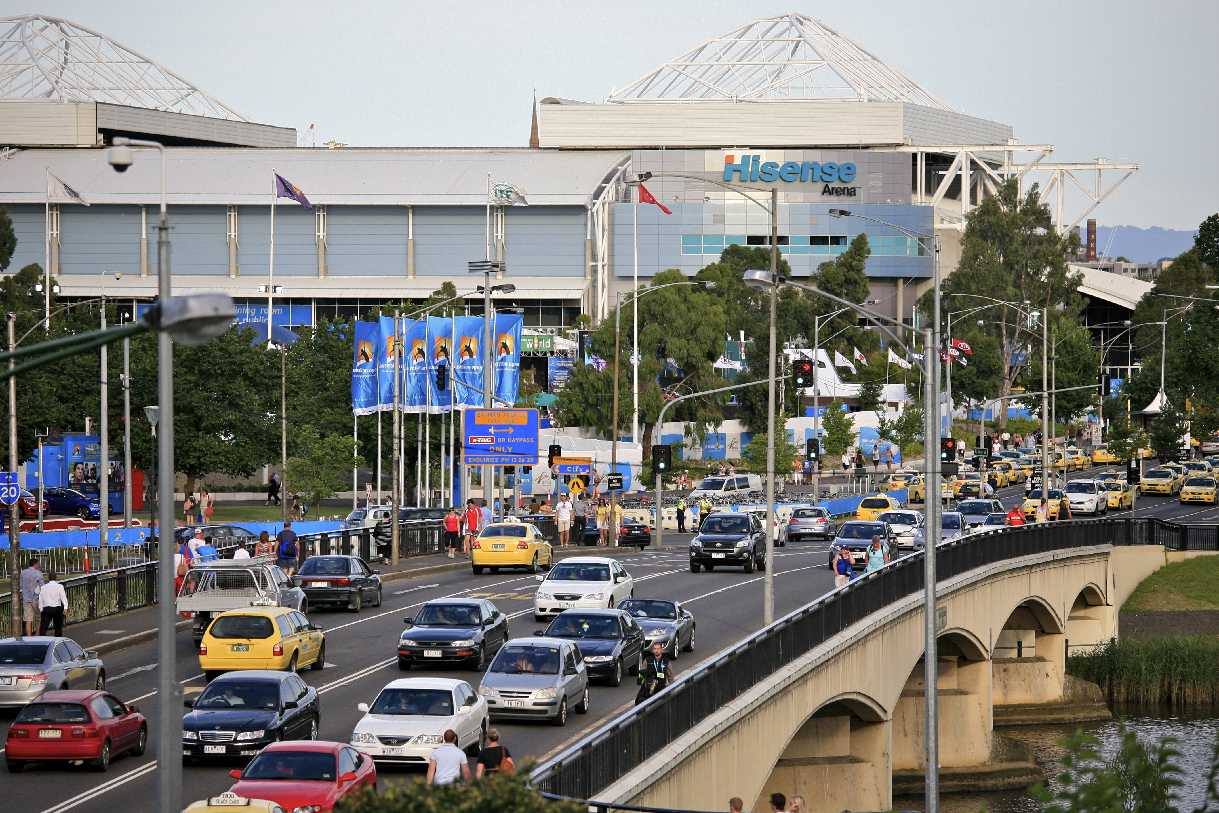 The HiSense Arena